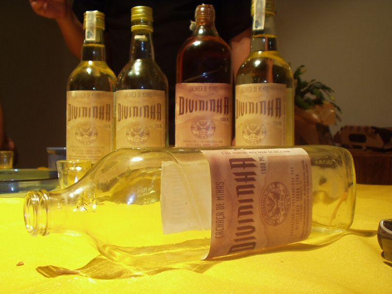 Bottles of Cachaça.